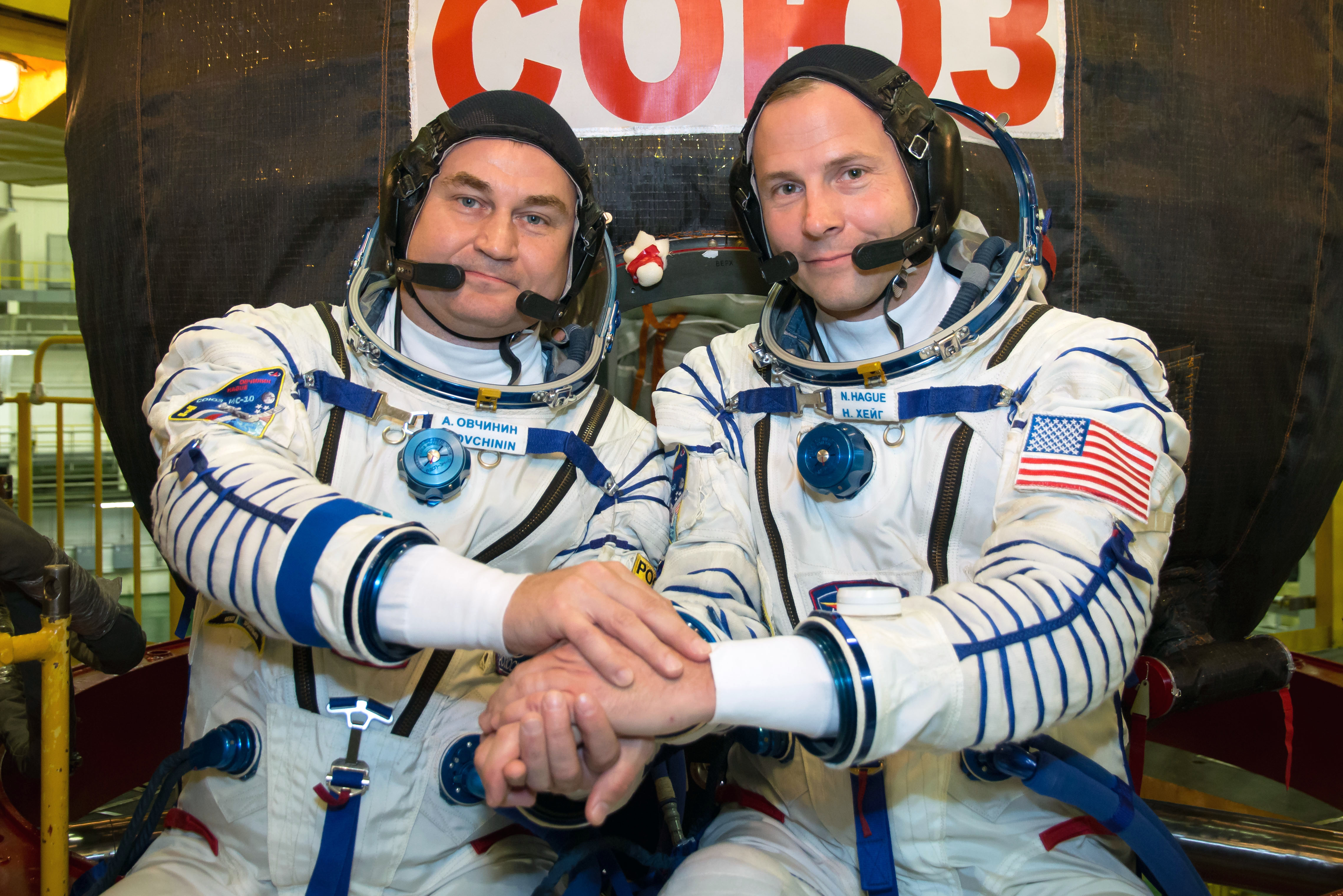 At the Baikonur Cosmodrome in Kazakhstan, Expedition 57 crew members Alexey Ovchinin of Roscosmos (left) and Nick Hague of NASA (right) pose for pictures in front of their Soyuz MS-10 spacecraft Sept. 26 during final pre-launch training. Ovchinin and Hague will launch Oct. 11 in the Soyuz MS-10 from the Baikonur Cosmodrome for a six-month mission on the International Space Station.